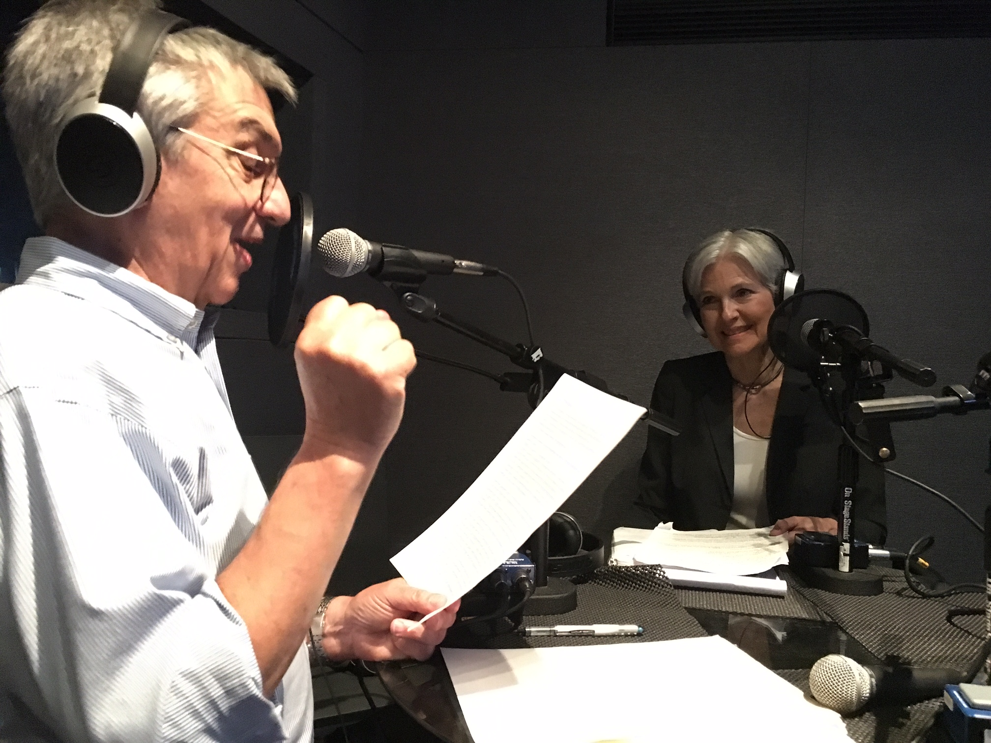 Jon Wiener (left) with Jill Stein in the studio of 'Start Making Sense', a political podcast, in 2016. Jon Wiener (left) is an American historian, scholar, journalist, professor emeritus at the University of California, Irvine, a contributing editor to 'The Nation', and host of its weekly political podcast, "Start Making Sense." Jill Ellen Stein is an American physician, activist, politician, and the Green Party's nominee for president in the 2016 election.